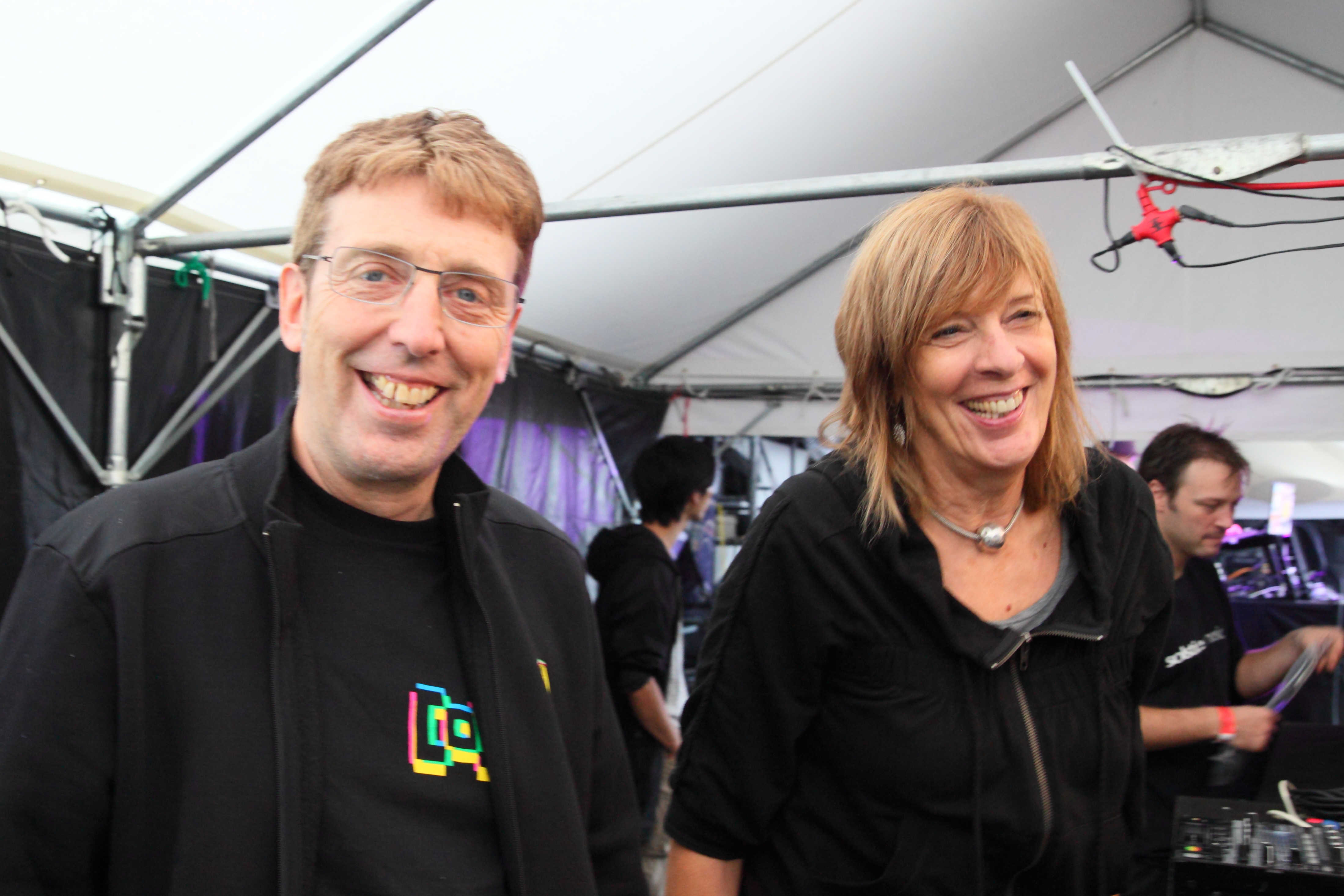 Steve Hillage and Miquette Giraudy from System 7 (October 3, 2010)